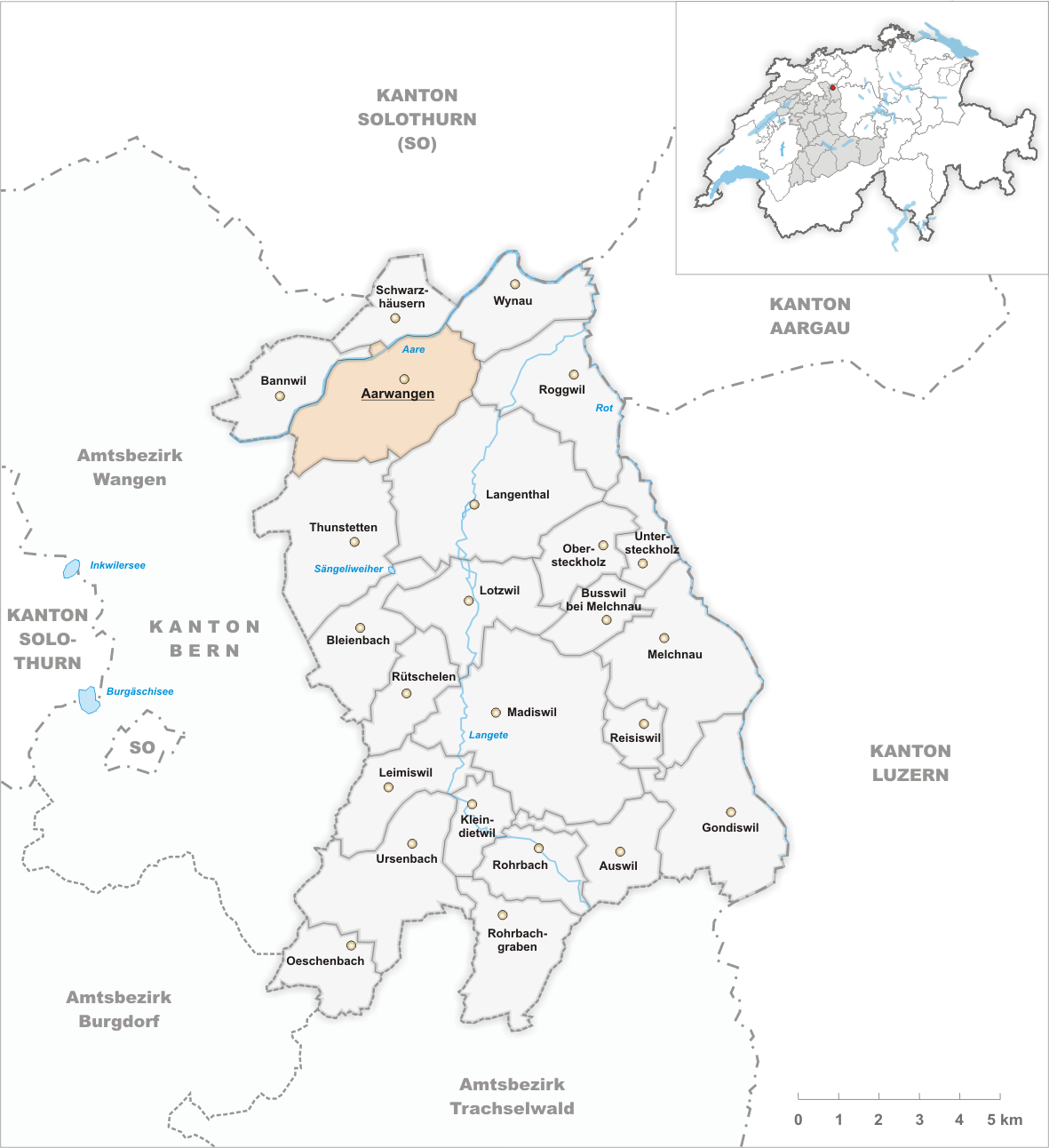 Municipality Aarwangen